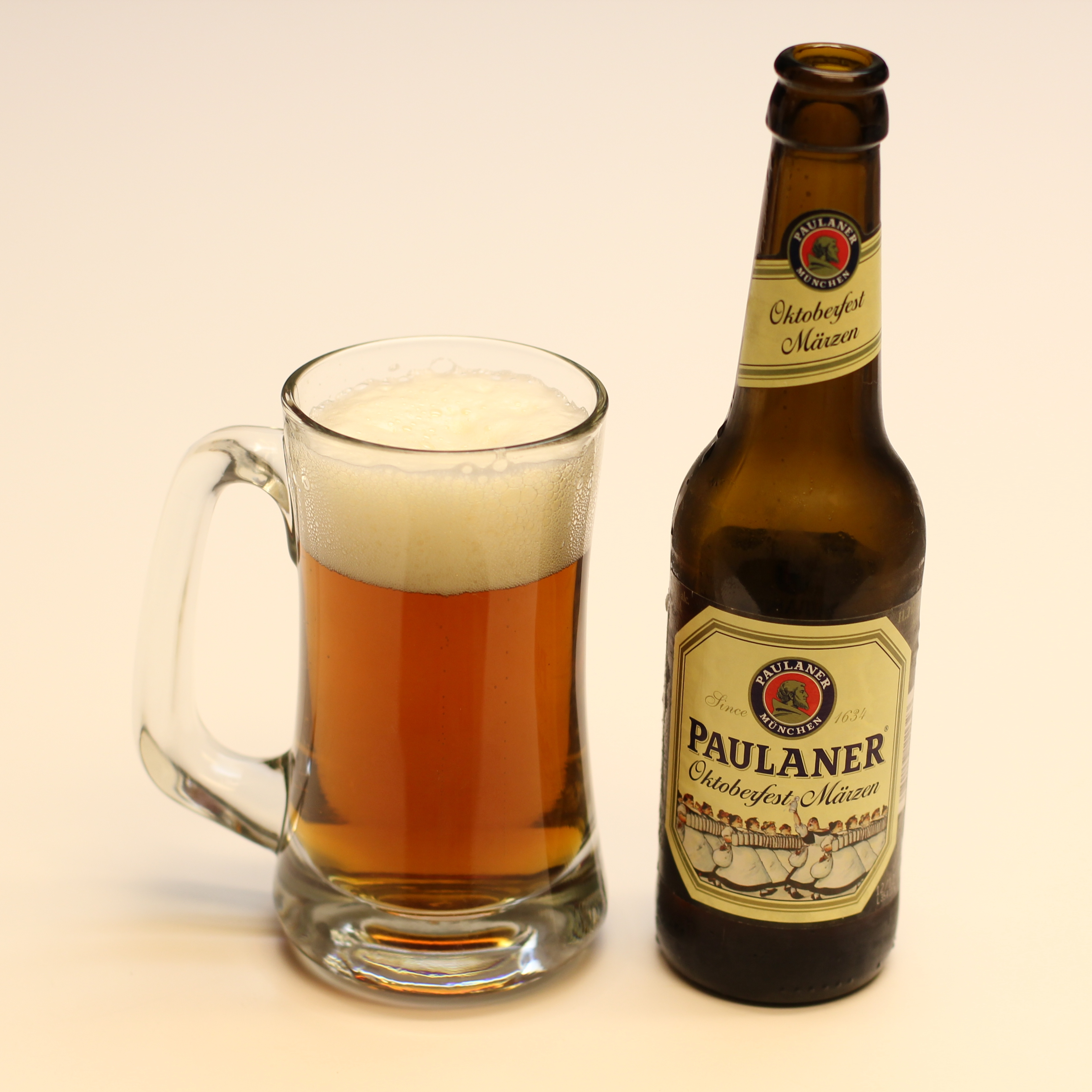 An 11.2 ounce (330 ml) bottle of Paulaner Oktoberfest Märzen poured into a glass beer mug.